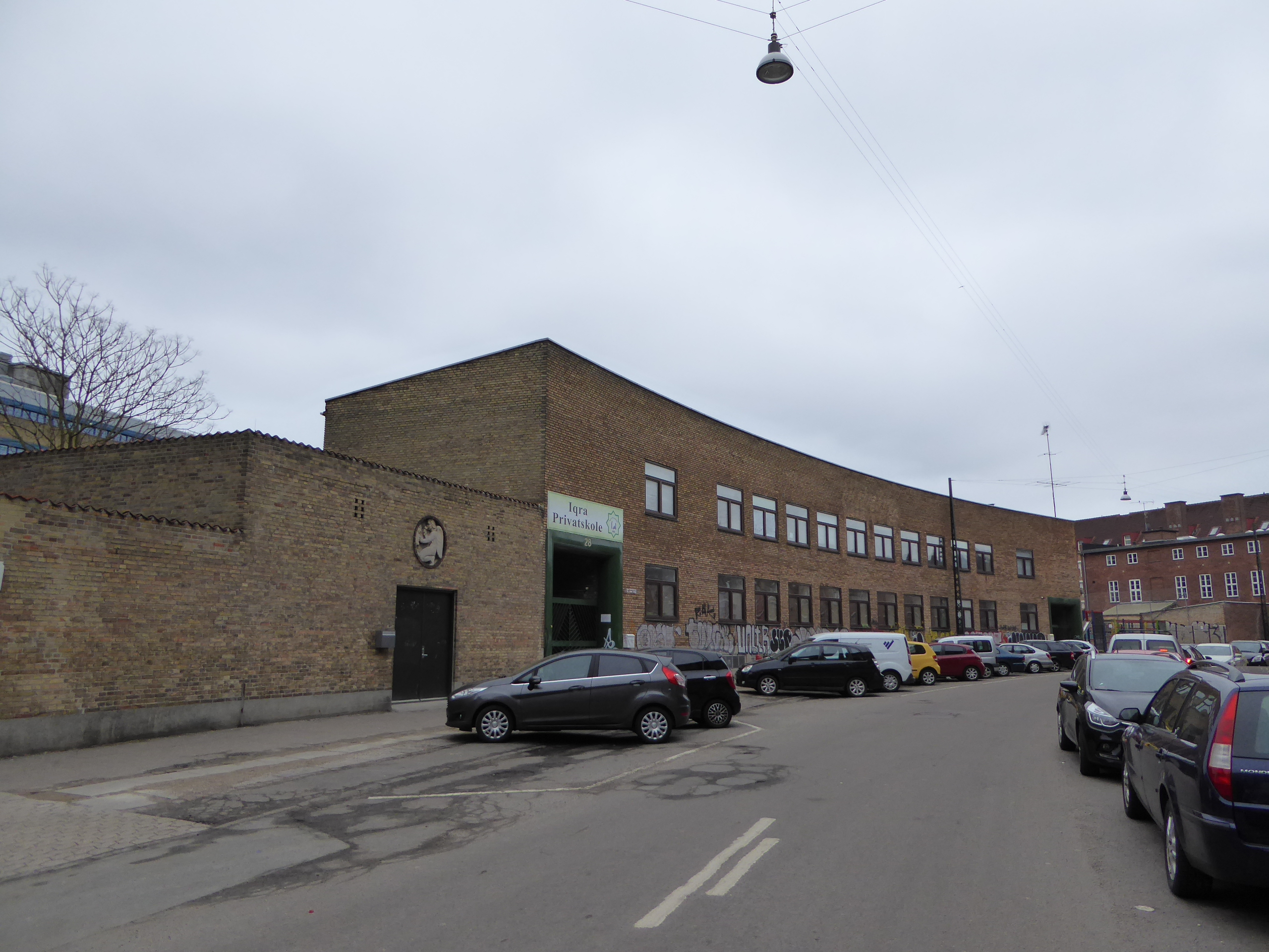 The school Iqra Privatskole at Hermodsgade in Nørrebro in Copenhagen.